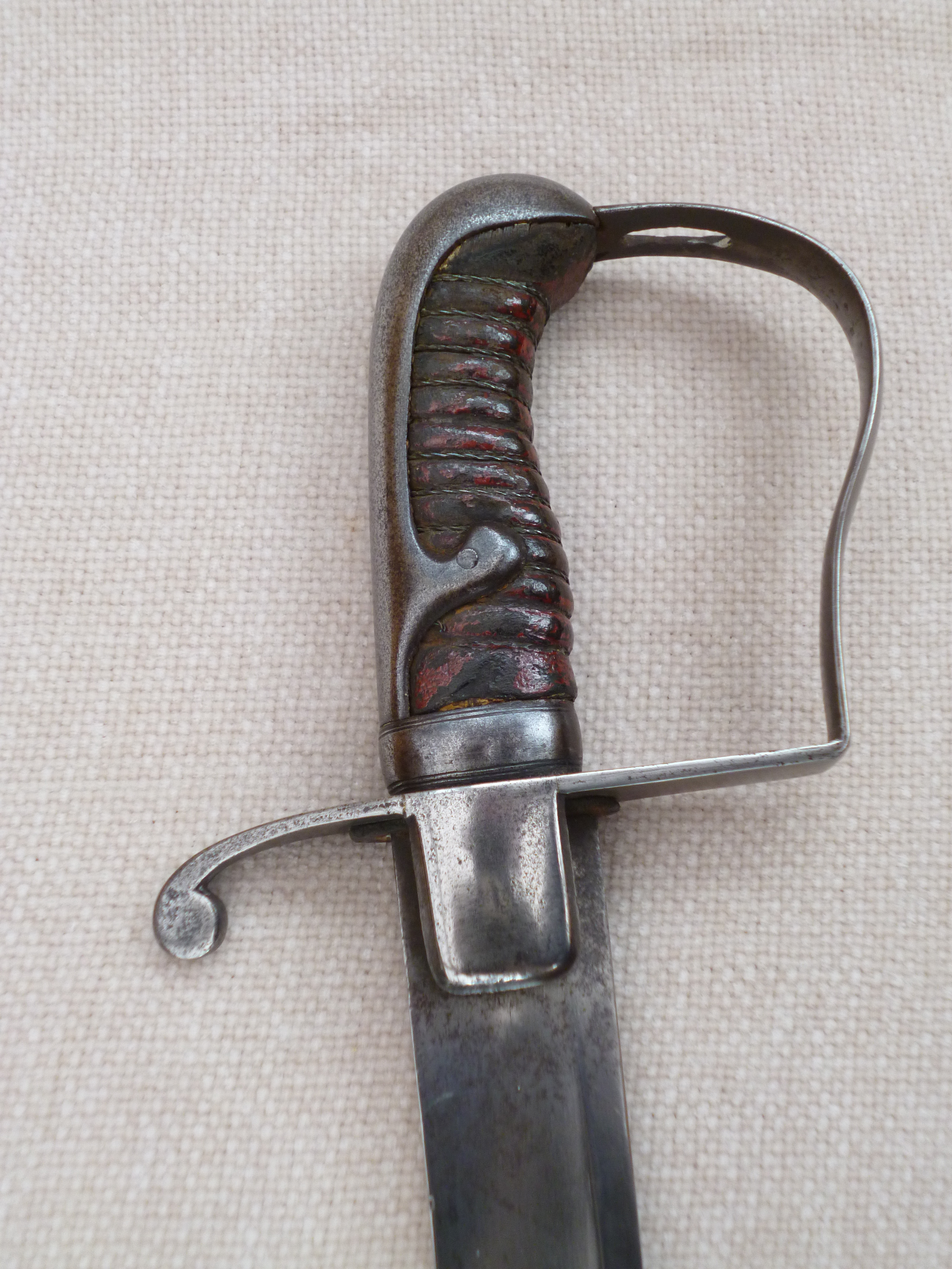 The hilt of an officer's fighting sabre 1796 light cavalry pattern made by J. Johnston, Sword Cutlers of 8 Newcastle Street, The Strand, London. The Address indicates that the sword pre-dates 1806, when the cutlers moved to 12 Newcastle Street.